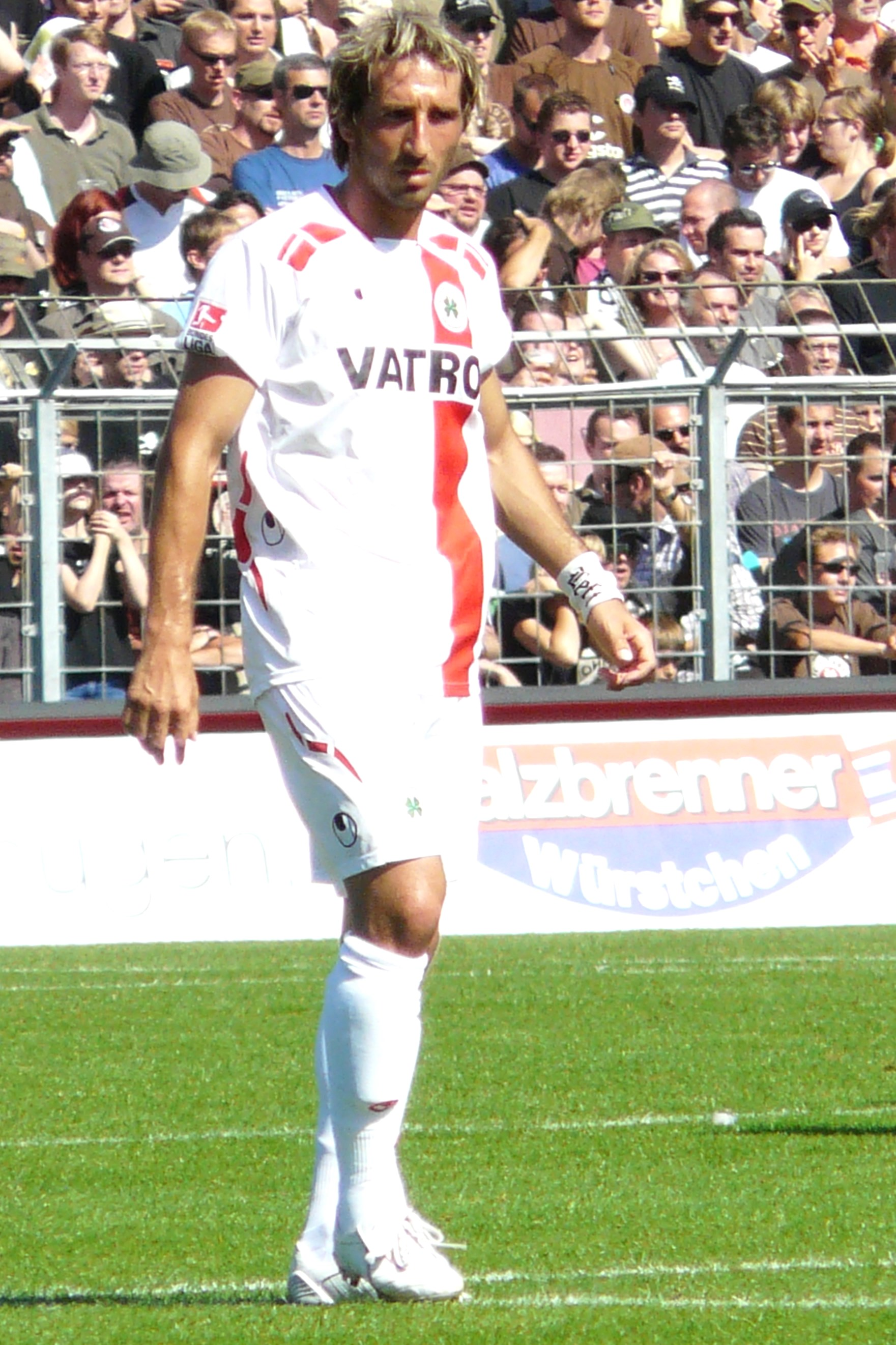 Dimitrios Pappas as Player from Rot-Weiß Oberhausen